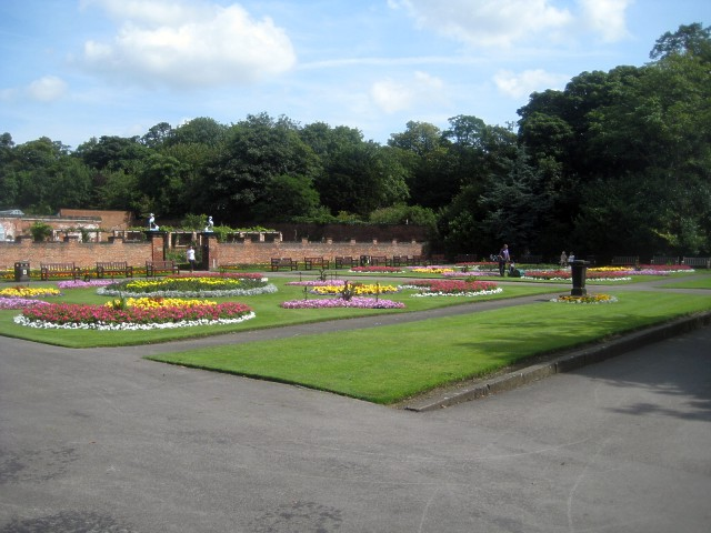 Thornes Park formal gardens. See 1443565